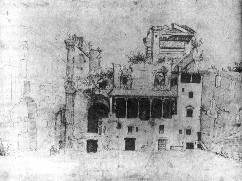 Early Palazzo Colonna with remains of the ancient Temple of Serapis. Drawing by Marten van Heemskerck, 1534 - 1536